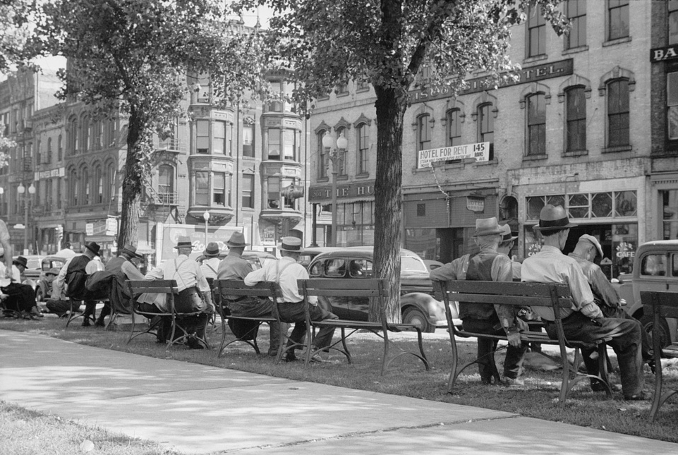 Men sitting in the park, Gateway District, Minneapolis, Minnesota. In the background is the Wisconsin Hotel at 205 Nicollet Avenue. Digital ID: fsa 8a04732 Reproduction Number: LC-USF33-T01-001515-M5